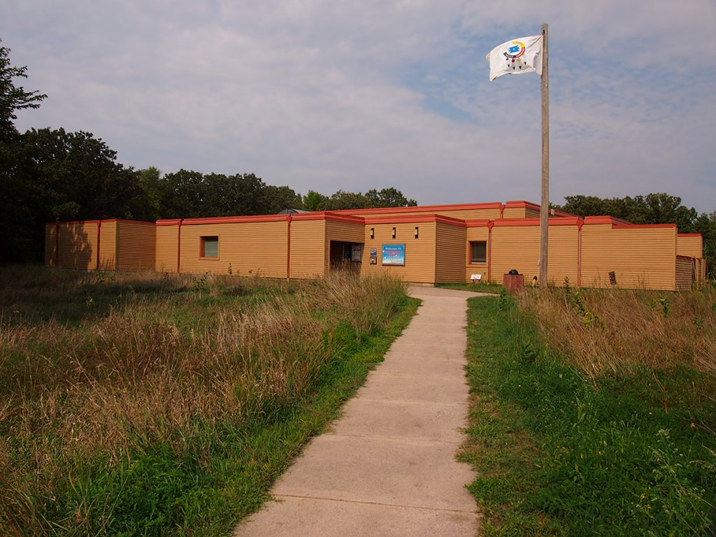 Interpretive Center, Lower Sioux Agency, Redwood County, Minnesota, USA.